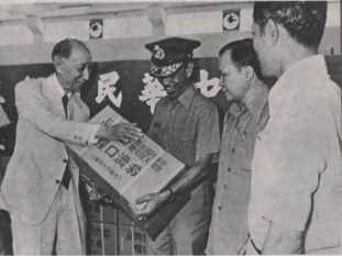 Ministry of Foreign Affairs, Republic of China official publication of Fang Chih, Vice President of the Free China Relief Association handing food and humanitarian aid to an official from the Ministry of National Defense for distribution in Mainland China.